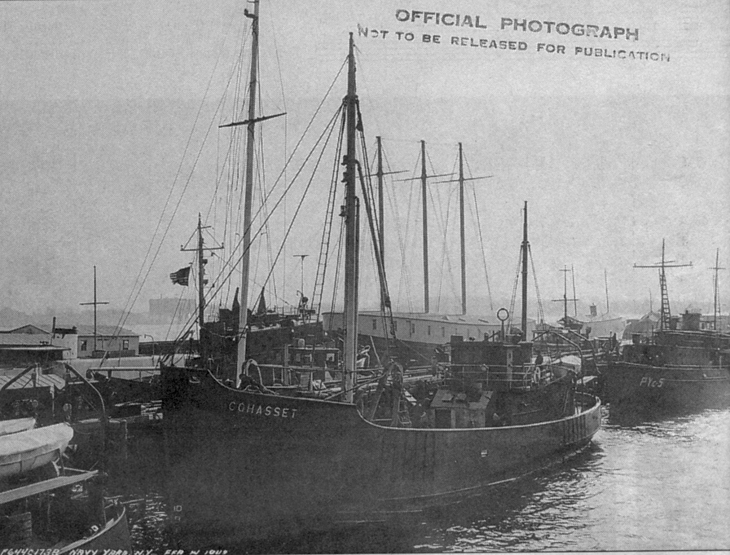 c. February 1942 New York Navy Yard Astern of the trawler Cohasset which was being converted to YP-389 U.S. Navy photo from the Virginian-Pilot